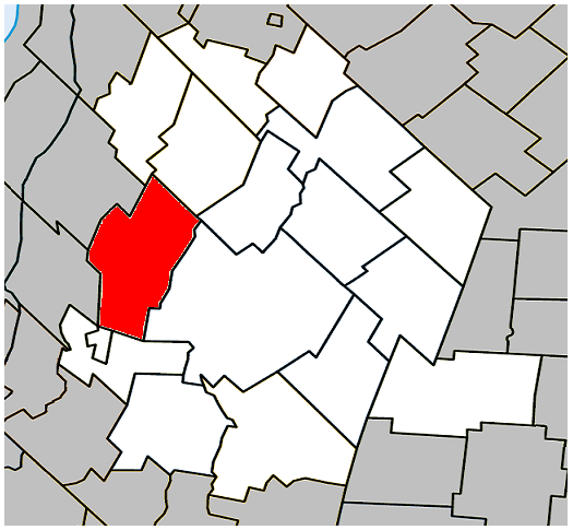 Location of La Présentation, Quebec within Les Maskoutains Regional County Municipality.